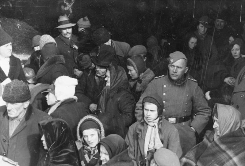 Note: This description has been identified as biased or incorrect: This was forced resettlement not evacuation. Wartheland, D.R. Polenevakuierung Polenlager am Verteilerpunkt Gelsendorf Information added by Wikimedia users. Гельзендорф, распределительный лагерь поляков, депортированных из Вартегау